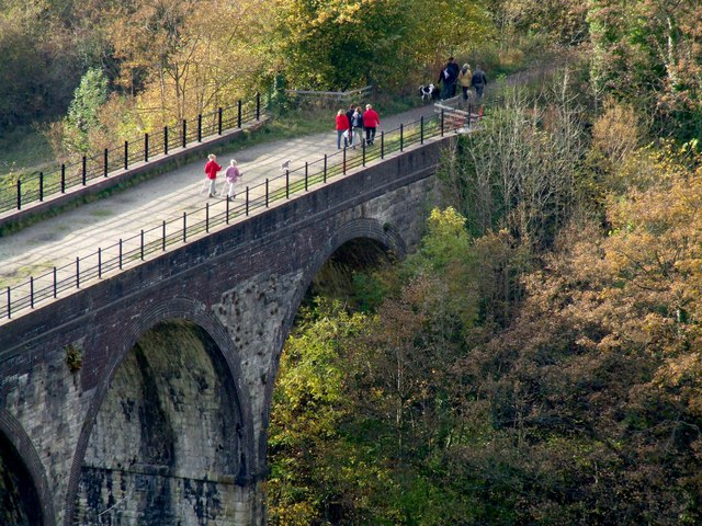 Monsal Dale The former Midland Railway's viaduct. The walkers are heading in the Buxton direction and will soon reach a tunnel, which is closed. I walked this viaduct just after the track was lifted and went through the tunnel, under Monsal Head, in the direction of Matlock. I was lucky not to fall down a shaft, which I stumbled upon in the dark.